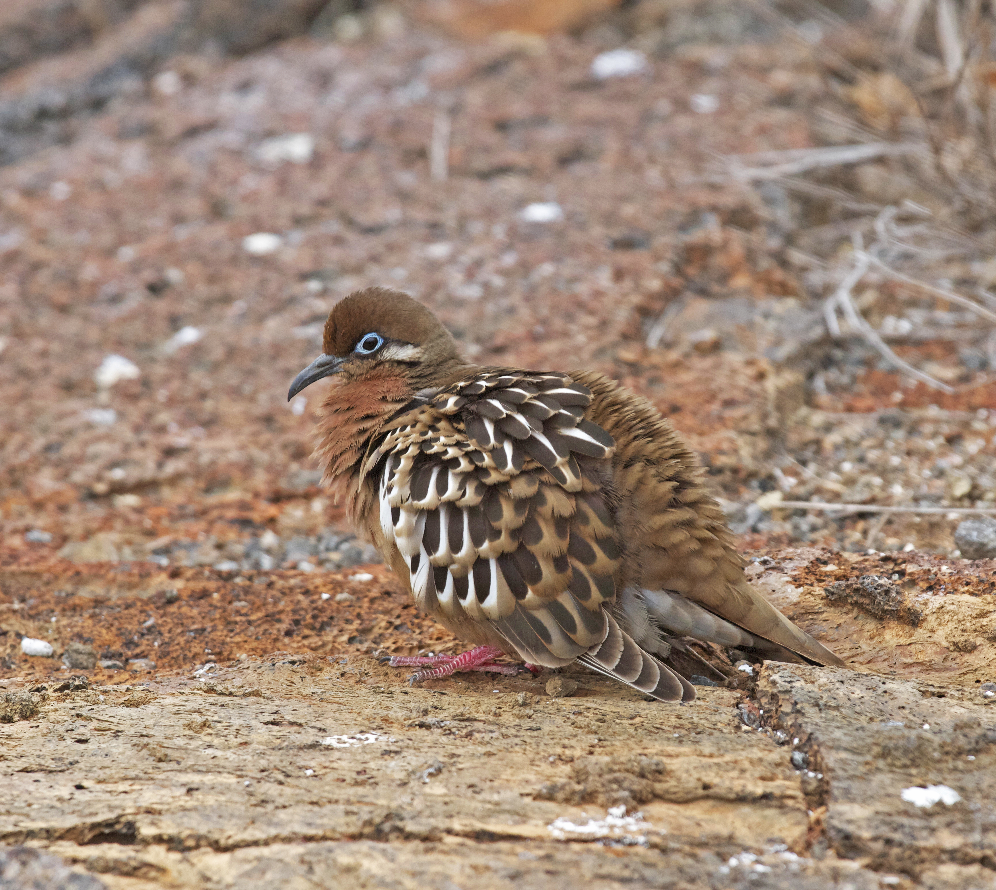 Galapagos Dove photo taken on Genovesa Island.